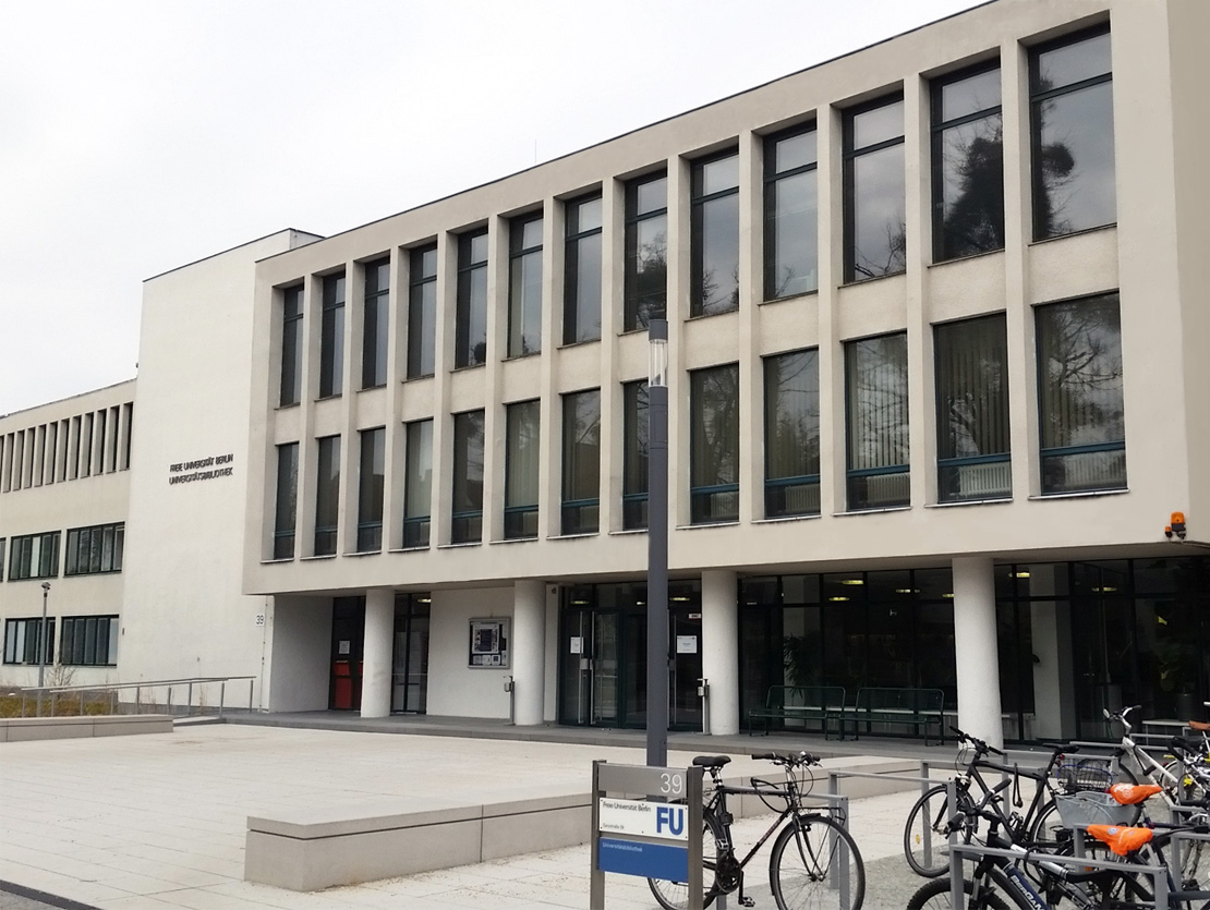 Free University of Berlin, Germany: University Library, main entrance Garystrasse 39)